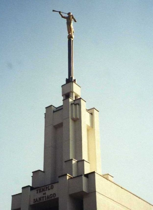 The Santiago Chile Temple of The Church of Jesus Christ of Latter-day Saints.